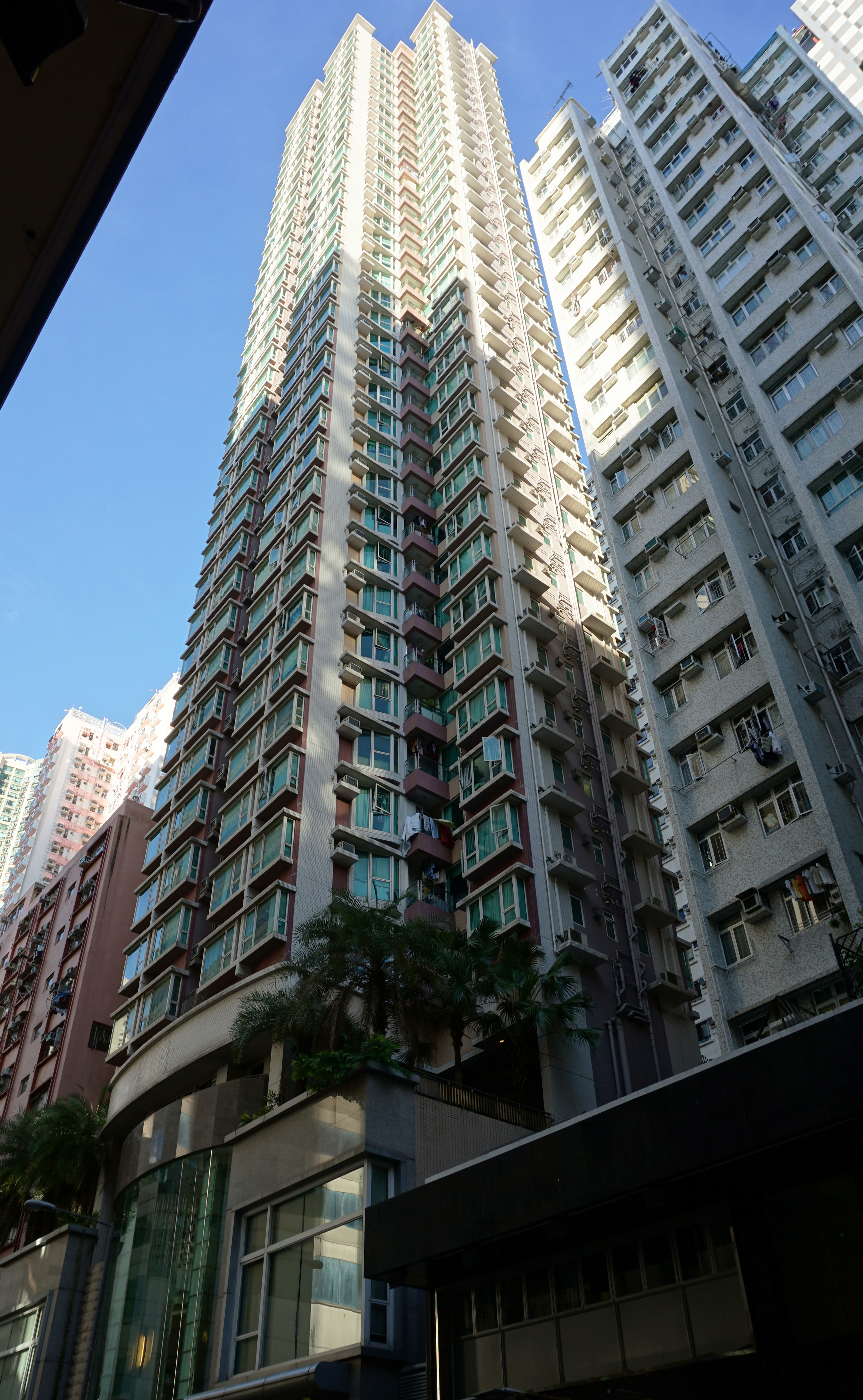 Ivy on Belcher's in Kennedy Town, Hong Kong.